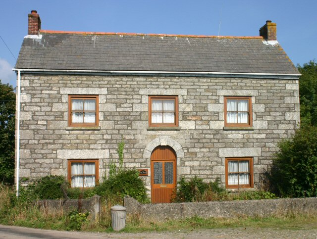 Trewney House. Trelawney - a nice house in Trew.